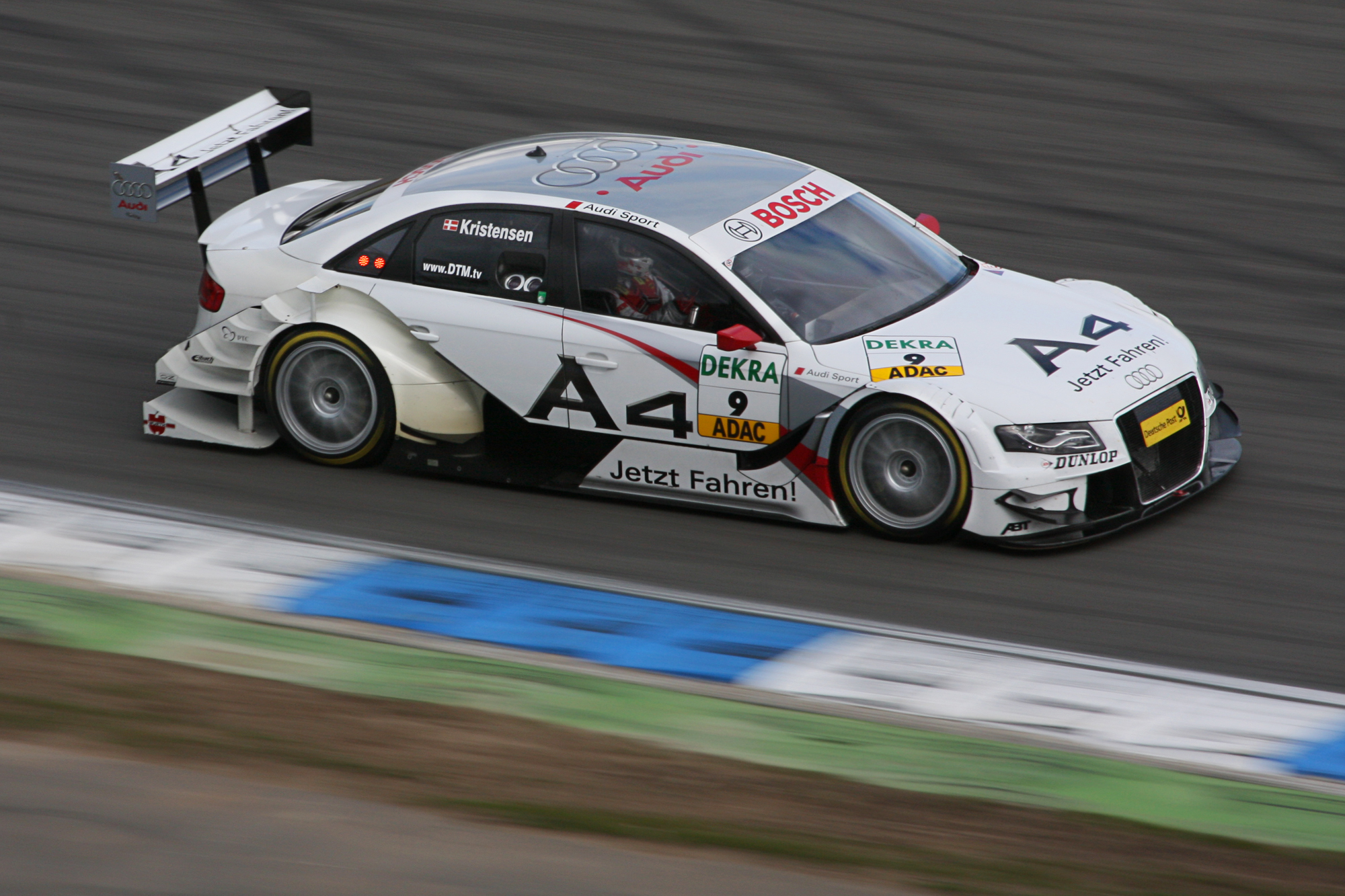 DTM racing car Audi Season 2008, Tom Kristensen (driver)